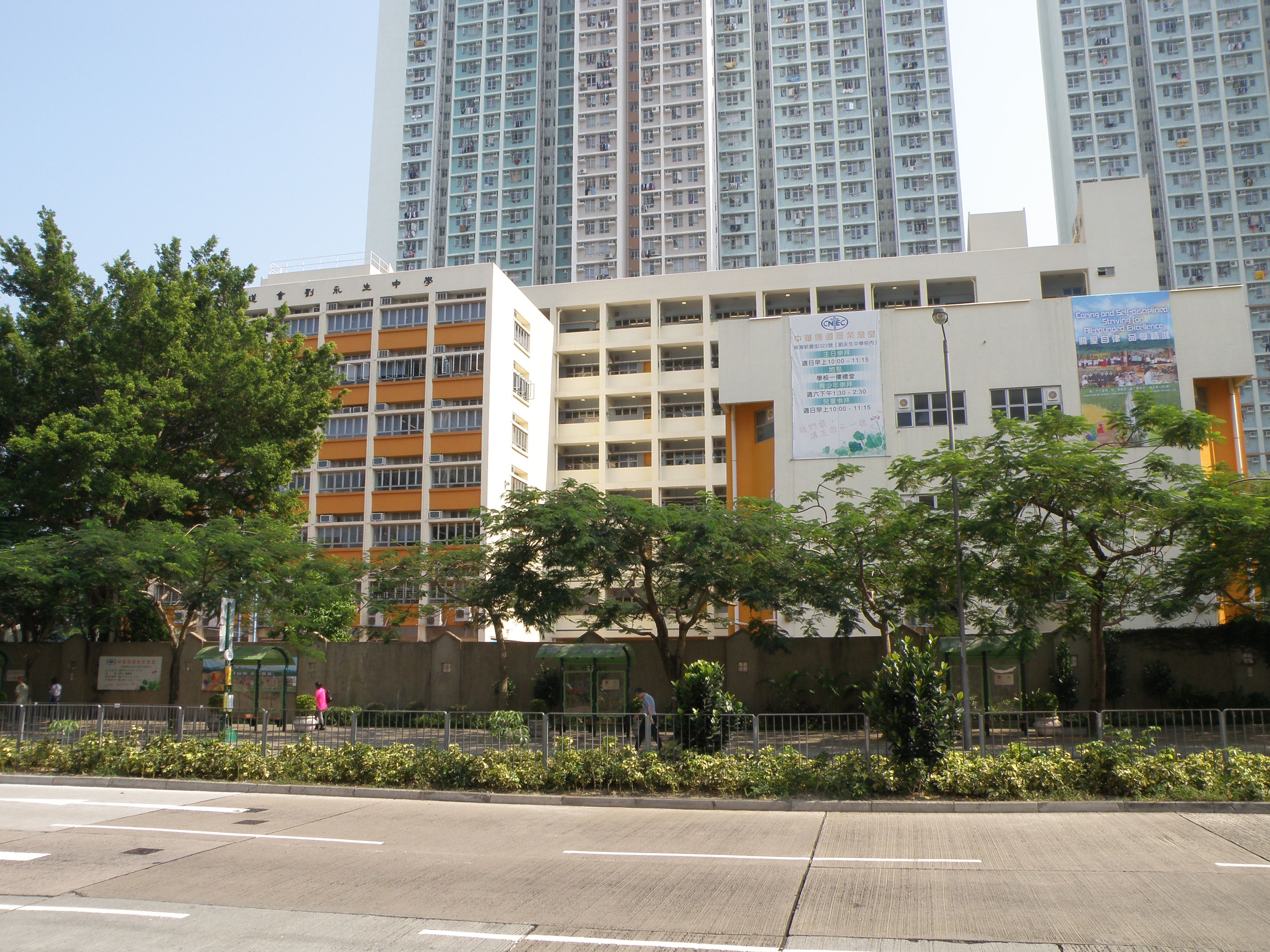 CNEC Lau Wing Sang Secondary School in Chai Wan, Hong Kong.